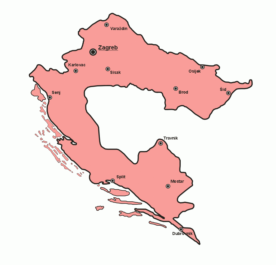 The map of Banovina of Croatia. Used this map as a source, [1].